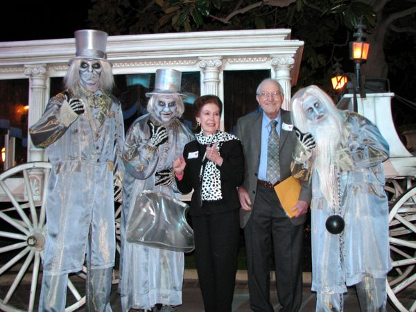 Disney Legends Harriet Burns, Blaine Gibson and ghosts from The Haunted Mansion ride.